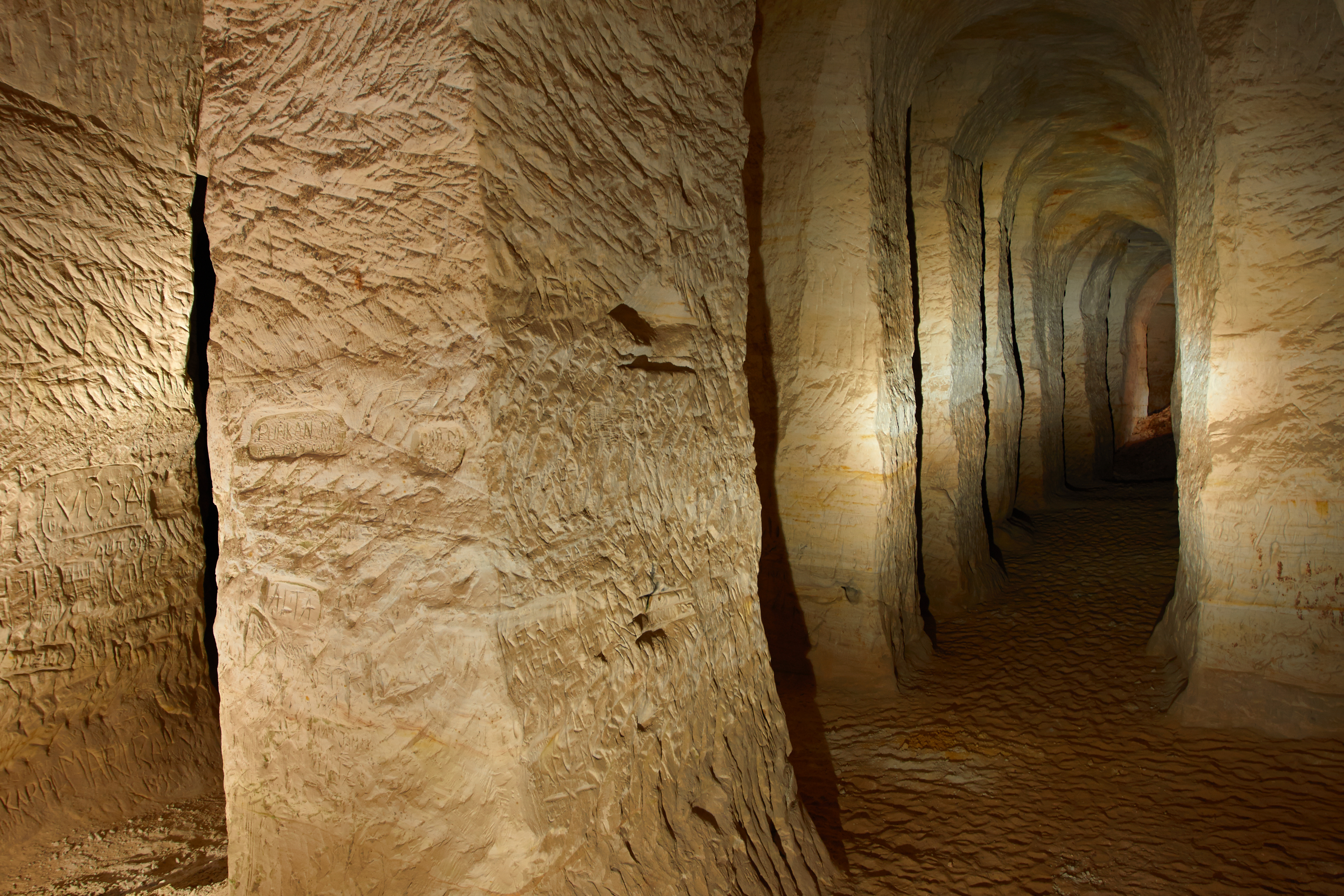 Piusa sand caves in South Estonia.